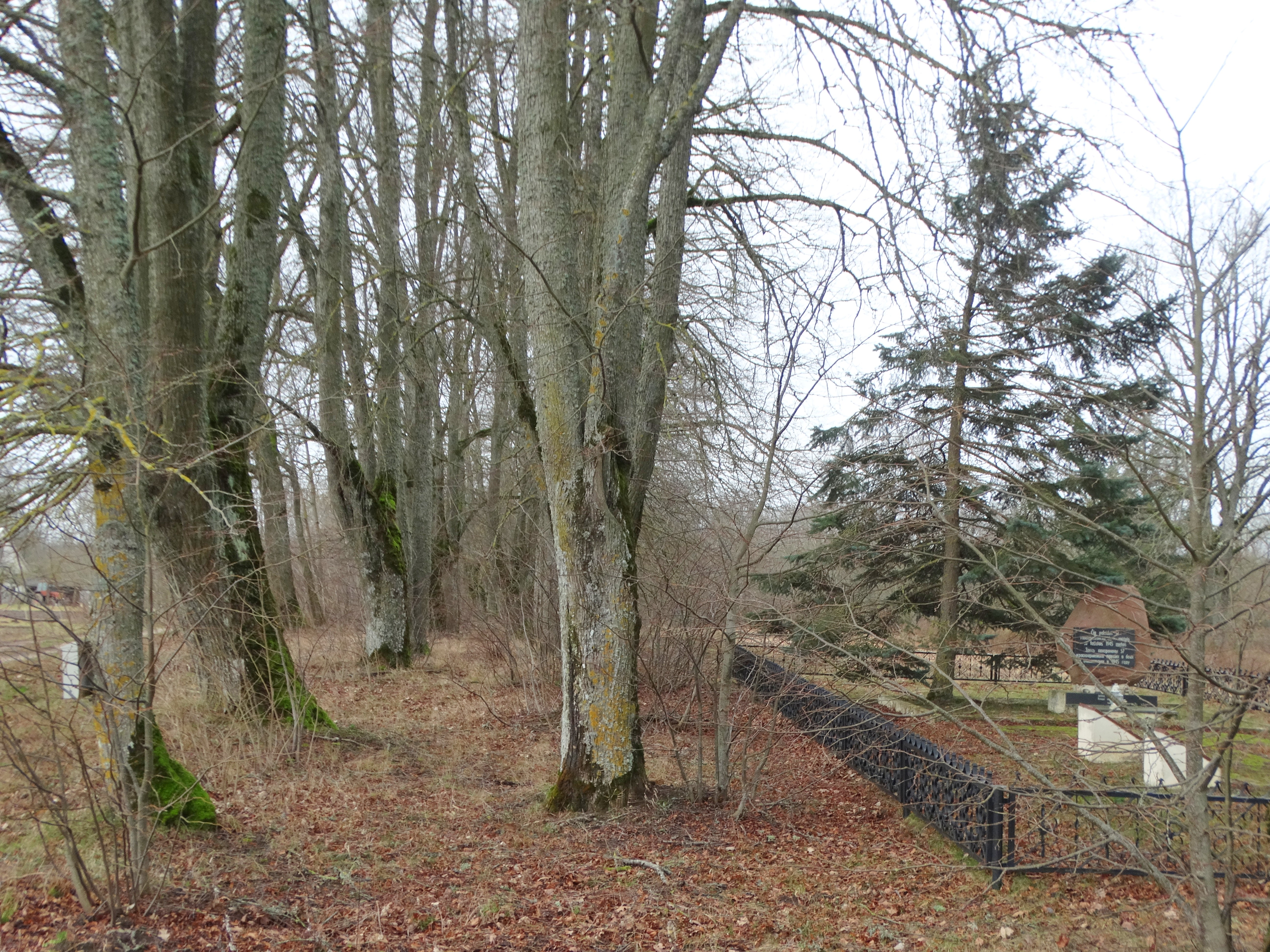 Former Šarkė manor, Daujotai, Skuodas District, Lithuania